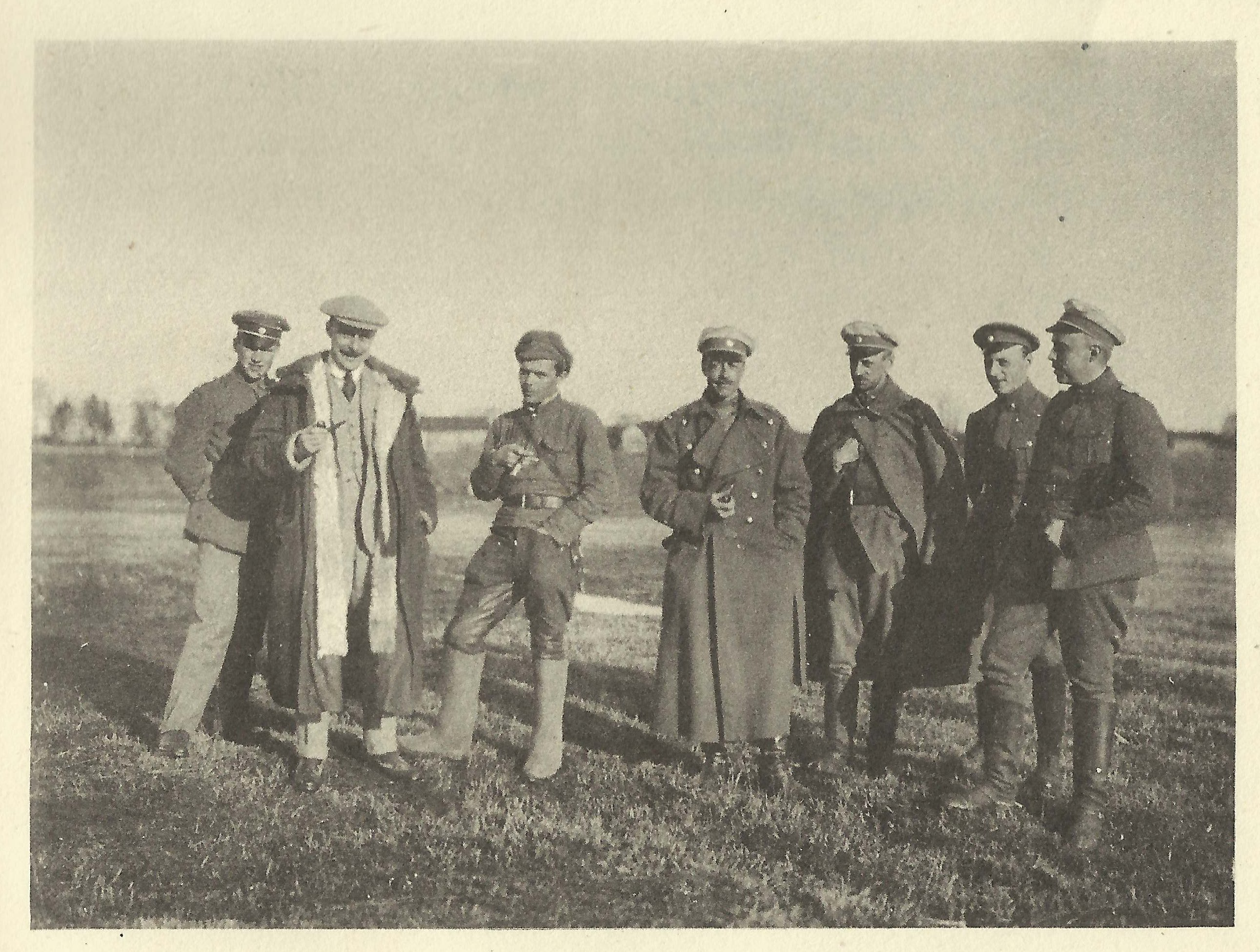 Meeting near the frontline at Zilupe/Rozenovskaja, Latvia in March 1920. From left to right: Unknown, Stephen Tallents, a russian bolshevik officer, Harold Alexander, officers of the Baltic Landeswehr.